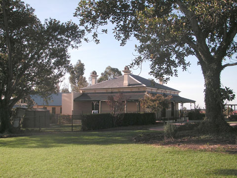 Historic Englorie Park house in Englorie Park, NSW. IT is now used as a childcare centre.